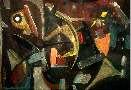 Fragmented Geometry series B N16 by Jack Mancino